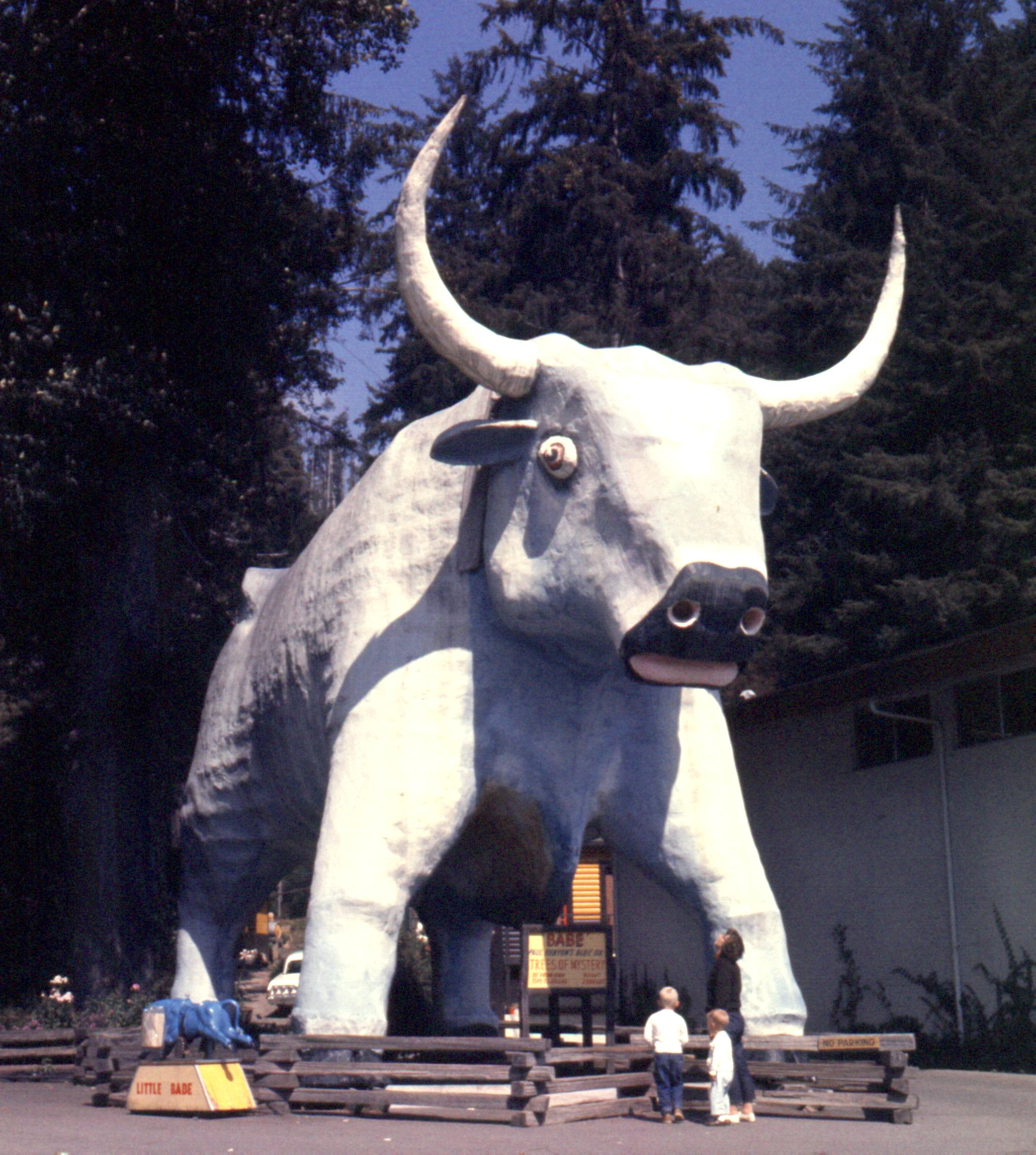 Statue of Babe the Blue Ox, Trees of Mystery, Klamath, California. Family vacation photo.